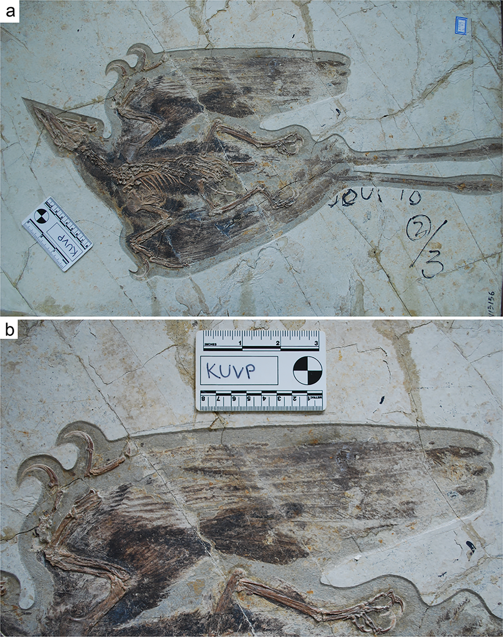 Photograph of Confuciusornis specimen IVPP V13156. (A) Full specimen. (B) Close up of right wing. Note the shortened tenth (outermost) primary.